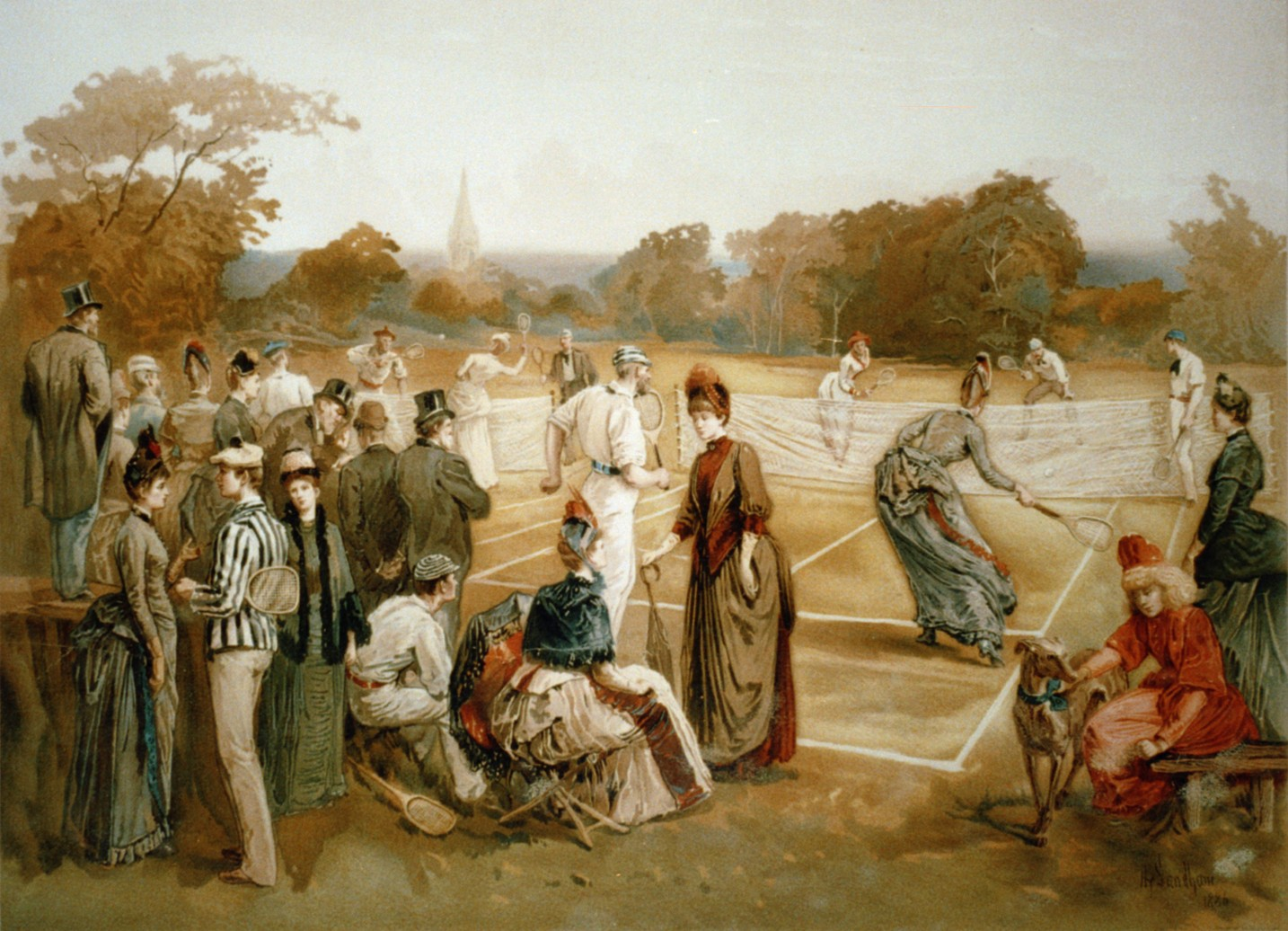 Lawn tennis, 1887. Print. Published in: Viewpoints; a selection from the pictorial collections of the Library of Congress … Washington: Library of Congress …, 1975, no. 121. Slightly cropped from the Library of Congress digital version using the GIMP.